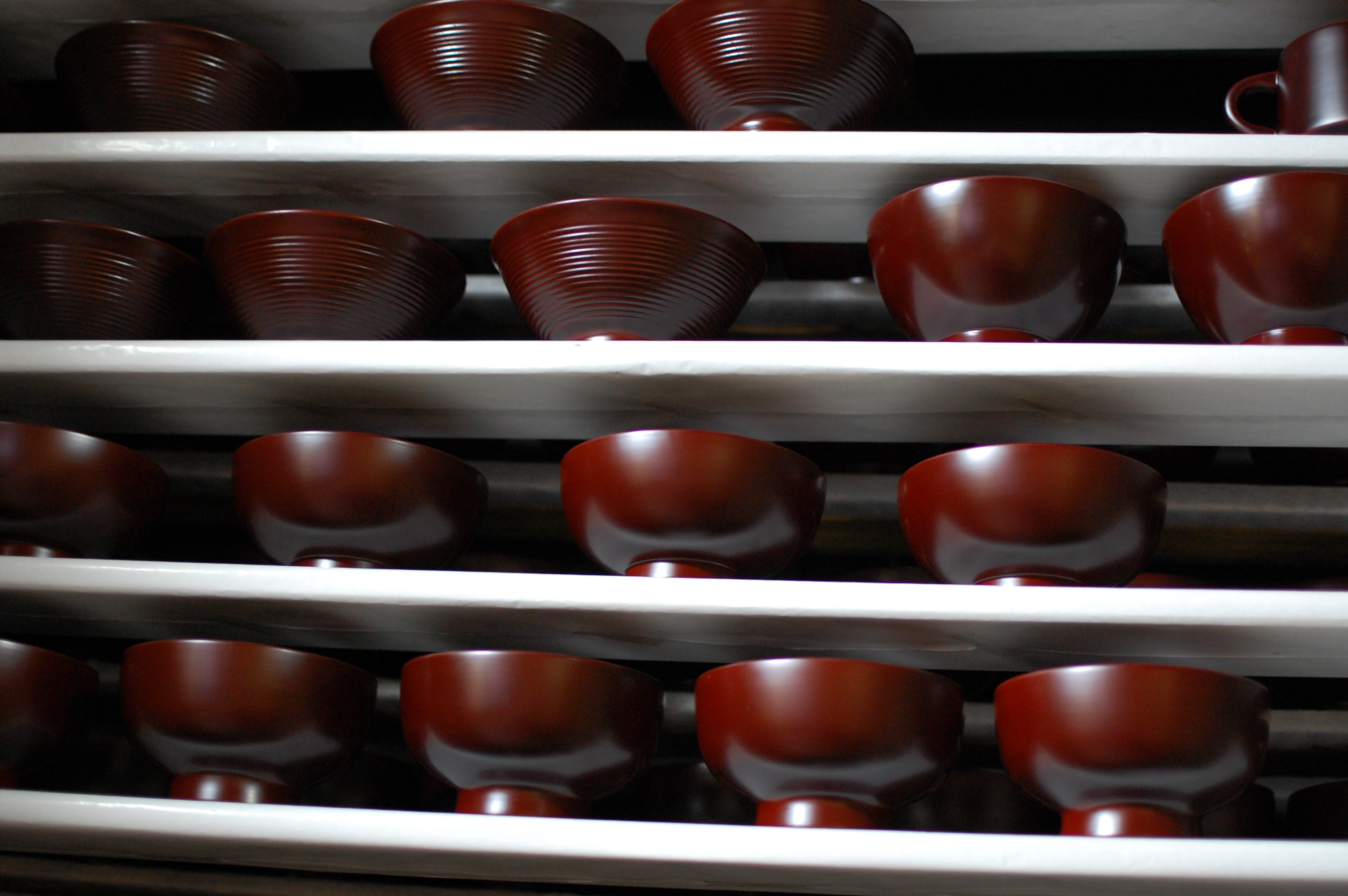 Sikki